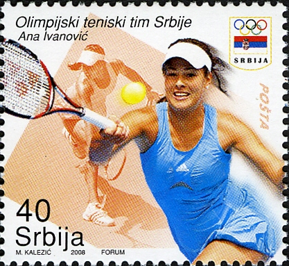 Serbian Olympic Tennis Team - Ana Ivanović